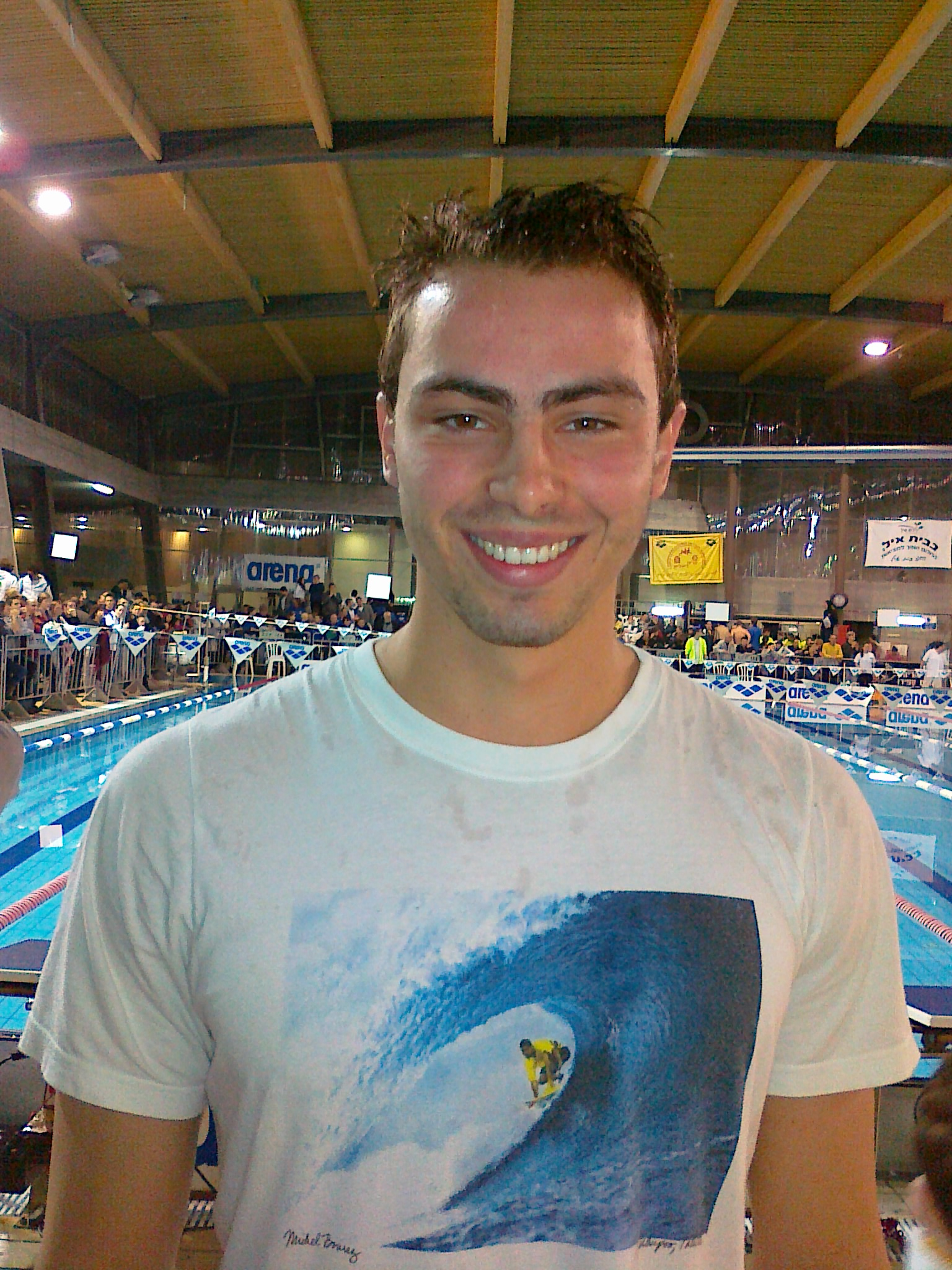 Yakov Toumarkin, After winning a gold medal in 200 m medley at Israel Swimming Championships (25-meter pool), Ashdot Yaacov, February 2013